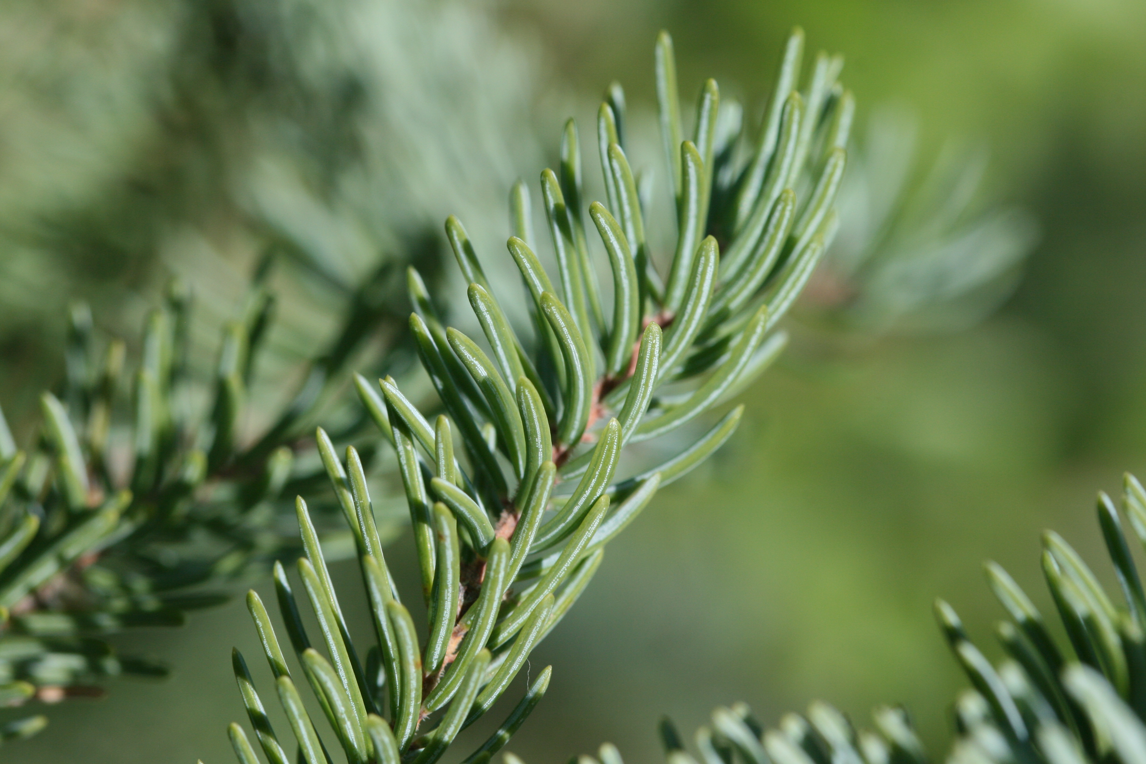 Black Spruce (Picea mariana) at Gravel Lake, East of Dawson City, Klondike Loop Highway, Yukon, Canada. Photographed on 11 August 2009.